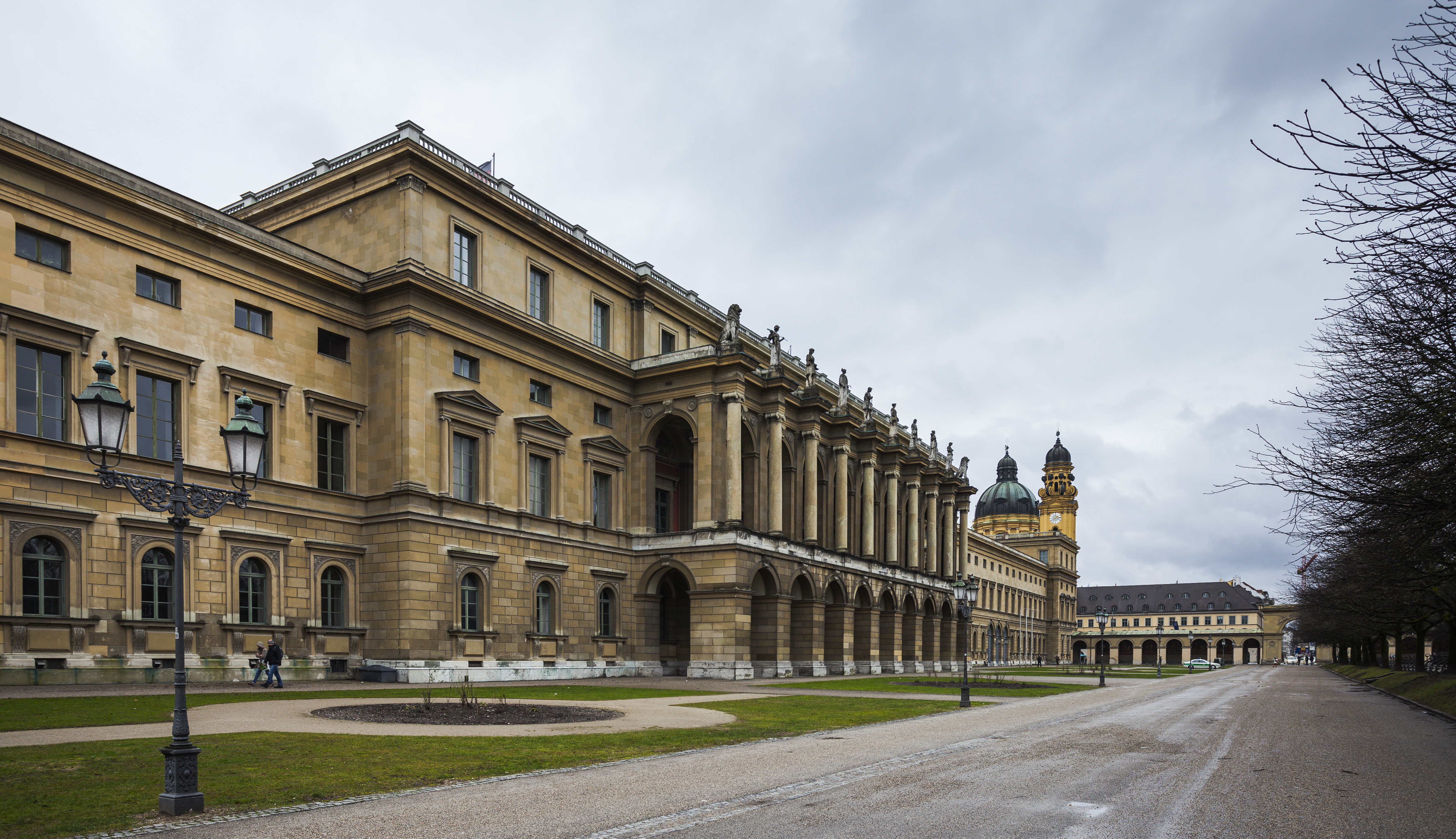 Munich Residenz, Munich, Germany